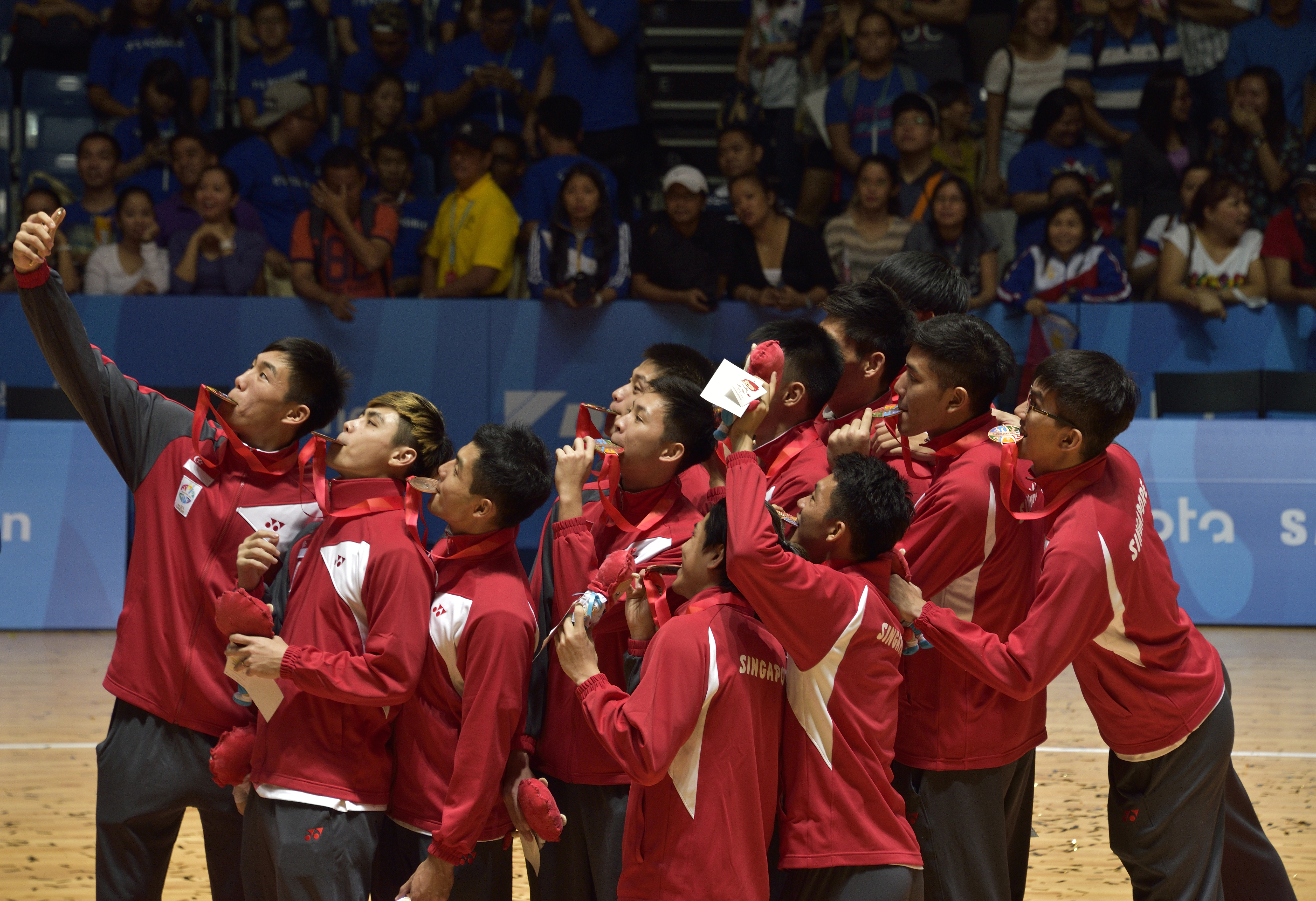 The Singaporean men's national basketball team - Bronze medalists